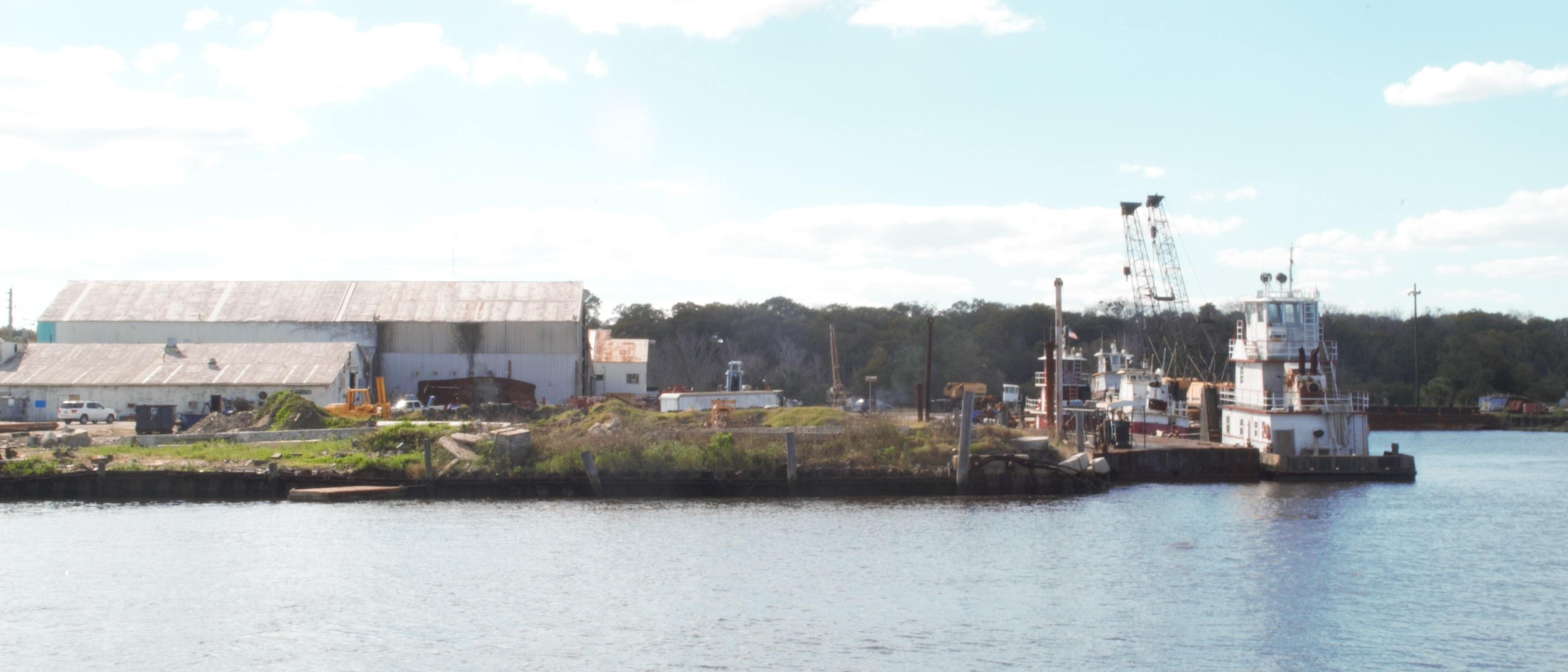 Moody Fabrication I took from a barge